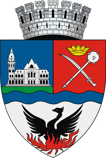 Coat of arms of Buzău, Romania